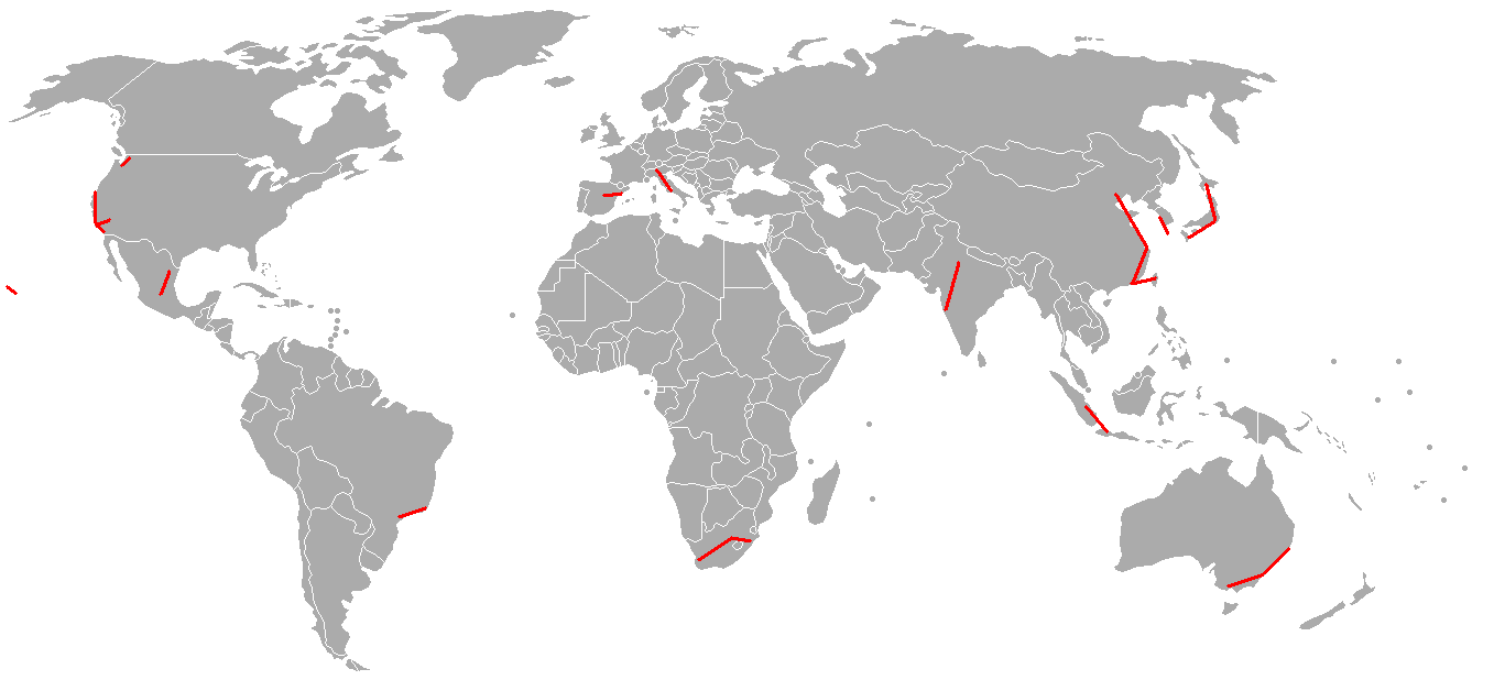 top 21 air routes in the world (Sept 2007), as defined by OAG (Official Airline Guide)